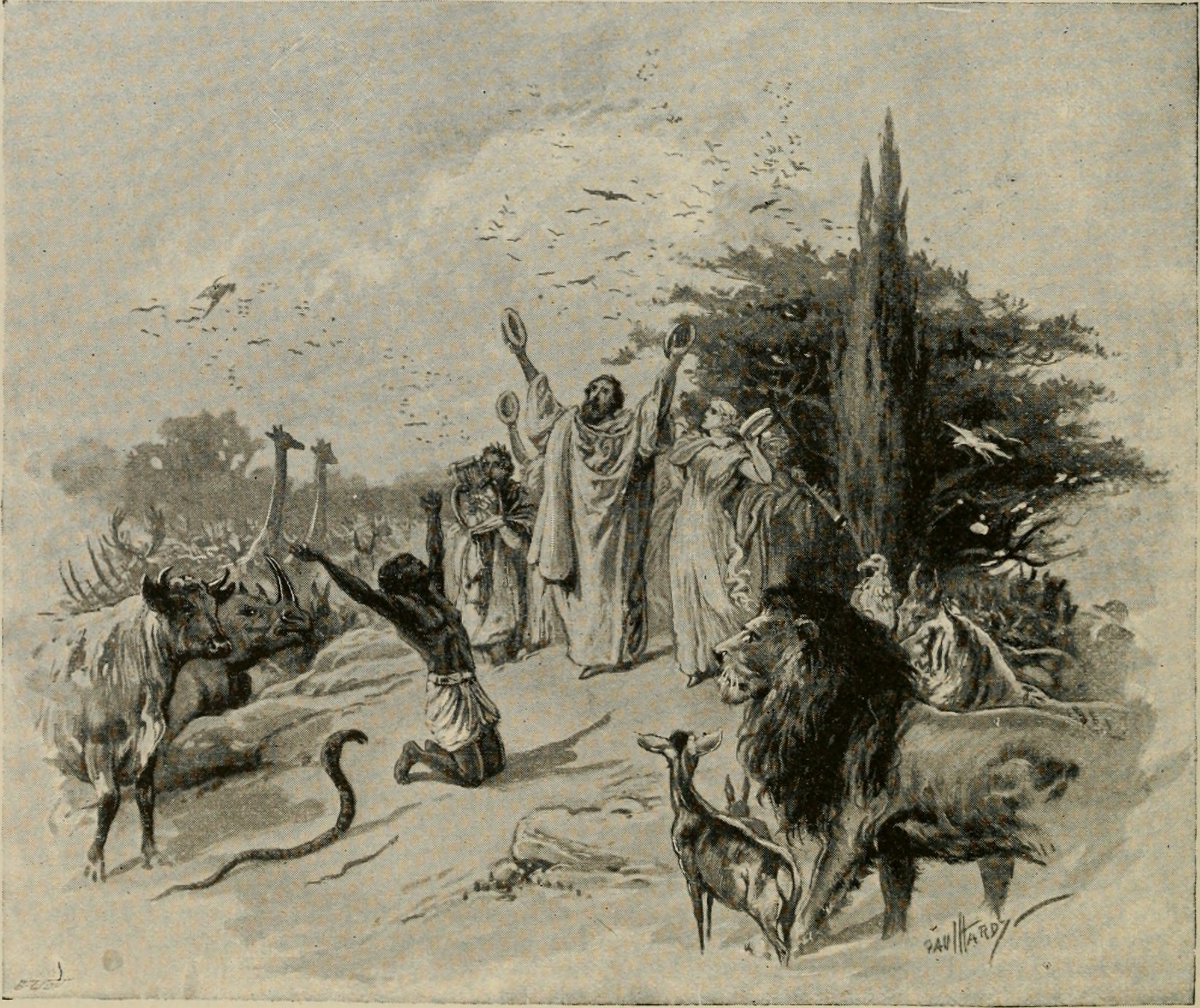 Title: The art Bible, comprising the Old and new Testaments : with numerous illustrations Year: 1896 (1890s) Authors: Subjects: Bible Publisher: London : G. Newnes Text Appearing Before Image: irKing. 3 Let them praise his name in the dance:let them sing praises unto him with thetimbrel and harp. 4 For the Lord taketh pleasure in hispeople: he will beautify the meek with sal-vation. 5 Let the saints be joyful in glory: let themsing aloud upon their beds. 6 Let the high praises of God be in theirmouth, and a two-edged sword in their hand ; 7 To execute vengeance upon the heathen,a7id punishments upon the people; PSALM 150. 1 An exhortation to jyraise God ivith all kinds ofmusical instruments. PRAISE ye the Lord. Praise God in hissanctuary: praise him in the firmamentof his power. 2 Piaise him for his mighty acts: jjraisehim according to his excellent greatness. 3 Praise him with the sound of the trumpet:praise him with the psaltery and harp. 4 Praise him with the timbrel and dance:praise him with stringed instruments andorgans. 5 Praise him upon the loud cymbals : praisehim upon the high sounding cymbals. 6 Let every thing that hath breath praisethe Lord. Praise ye the Lord. Text Appearing After Image: 712 THE BOOK OF PROYERBS